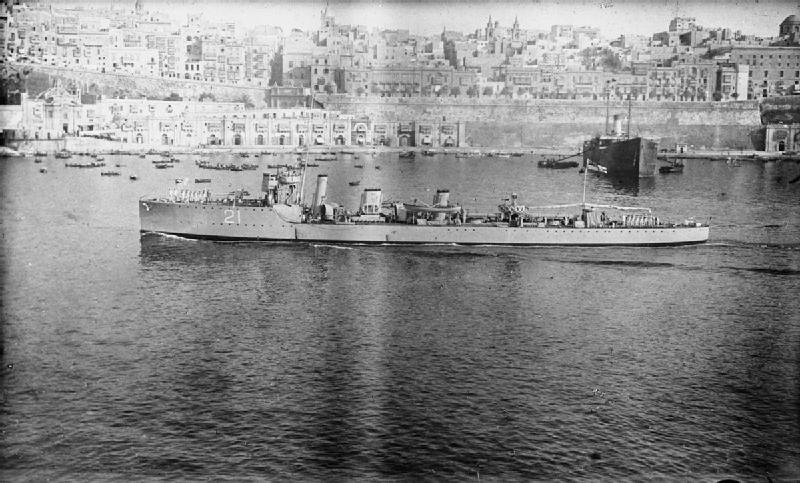 Photograph of British Acorn class destroyer HMS Cameleon Valletta Harbour, Malta.